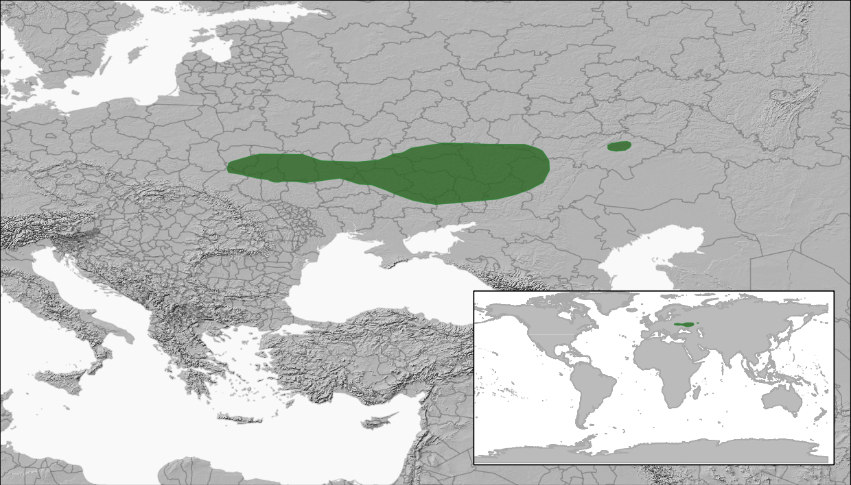 Distribution Sicista severtzovi